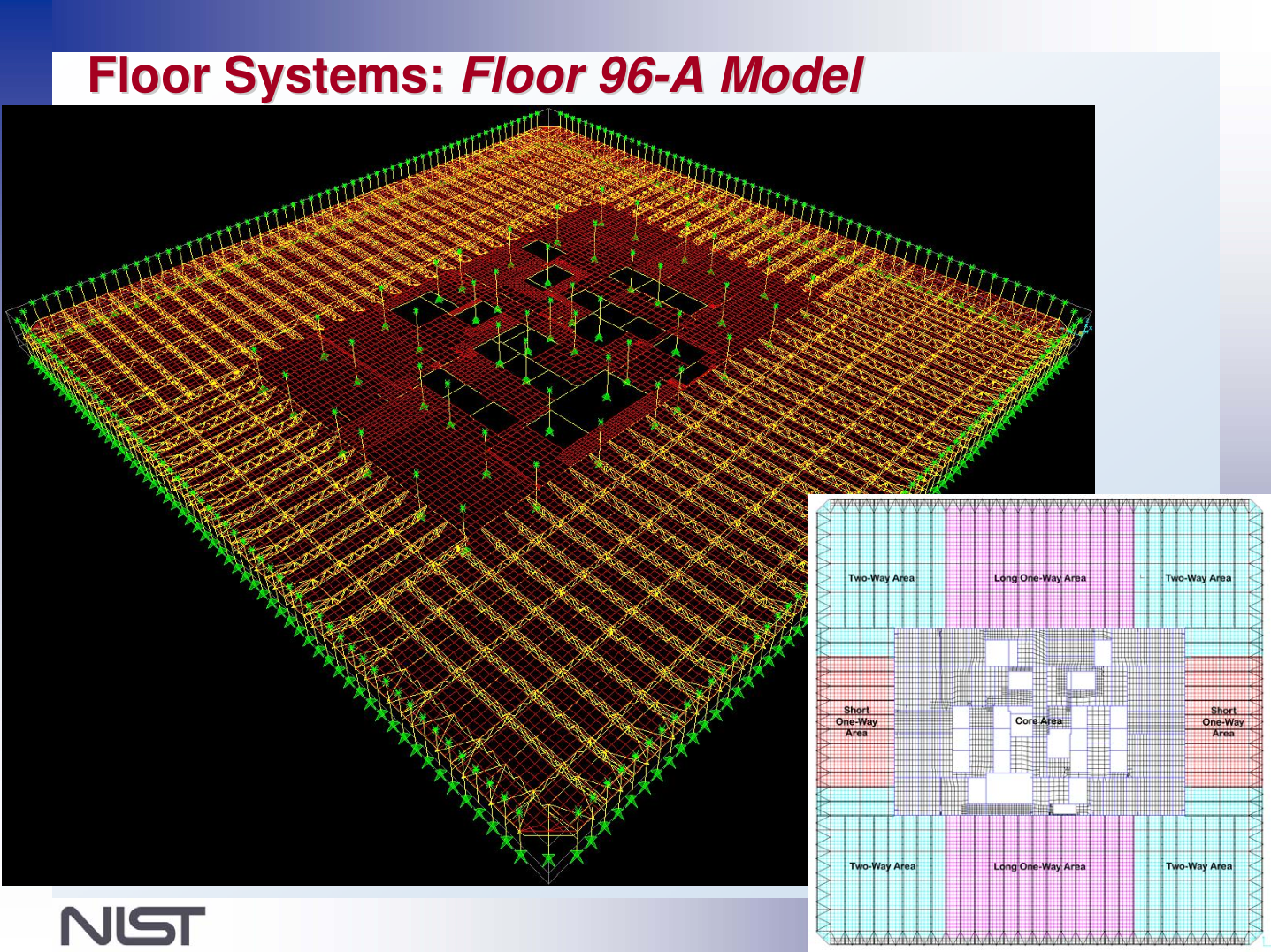 Schematic diagram of World Trade Center floor systems